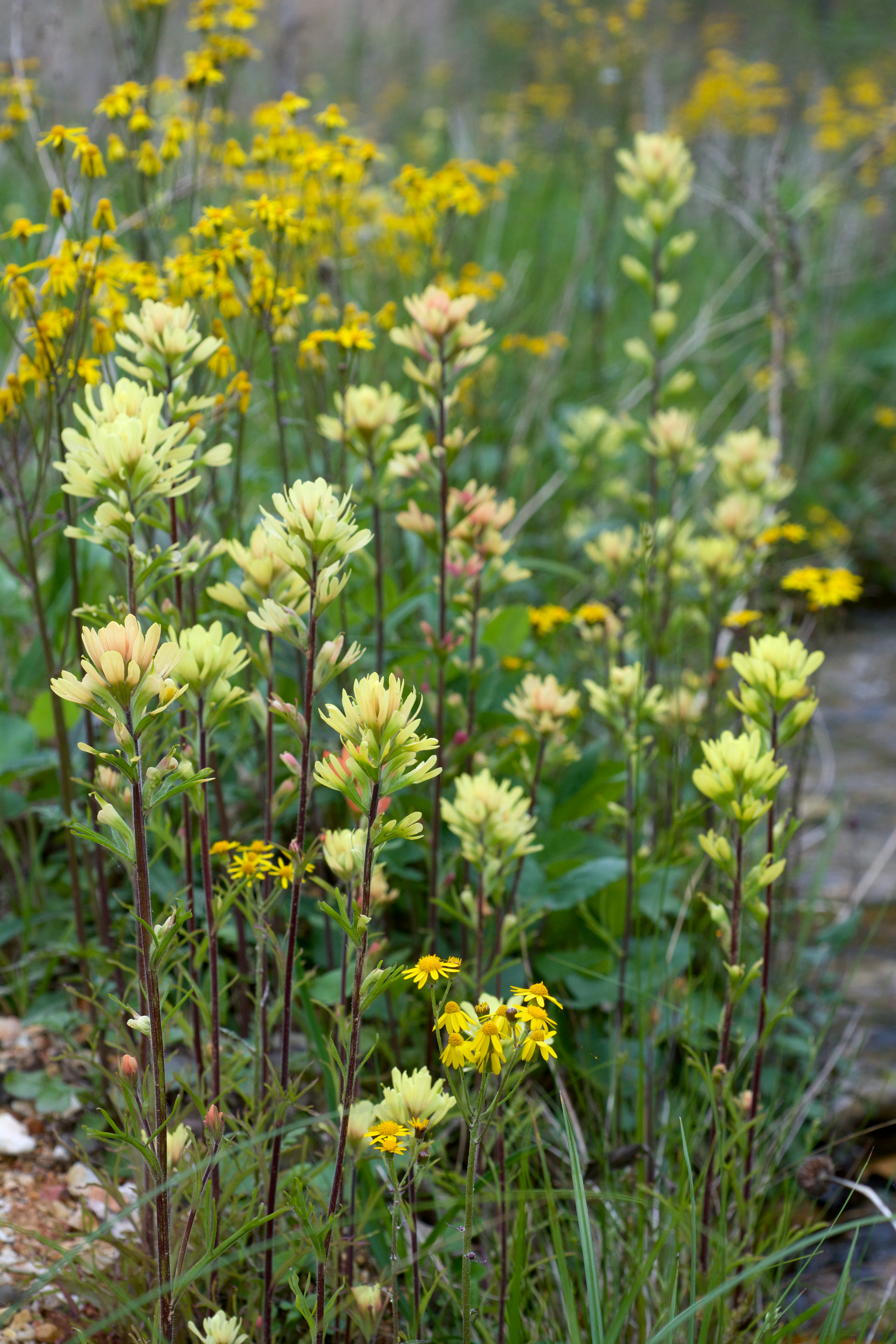 Species from Eastern North America Common name: Scarlet Indian Paintbrush Photographed in Rock Creek Natural Area, Sharp County, Arkansas